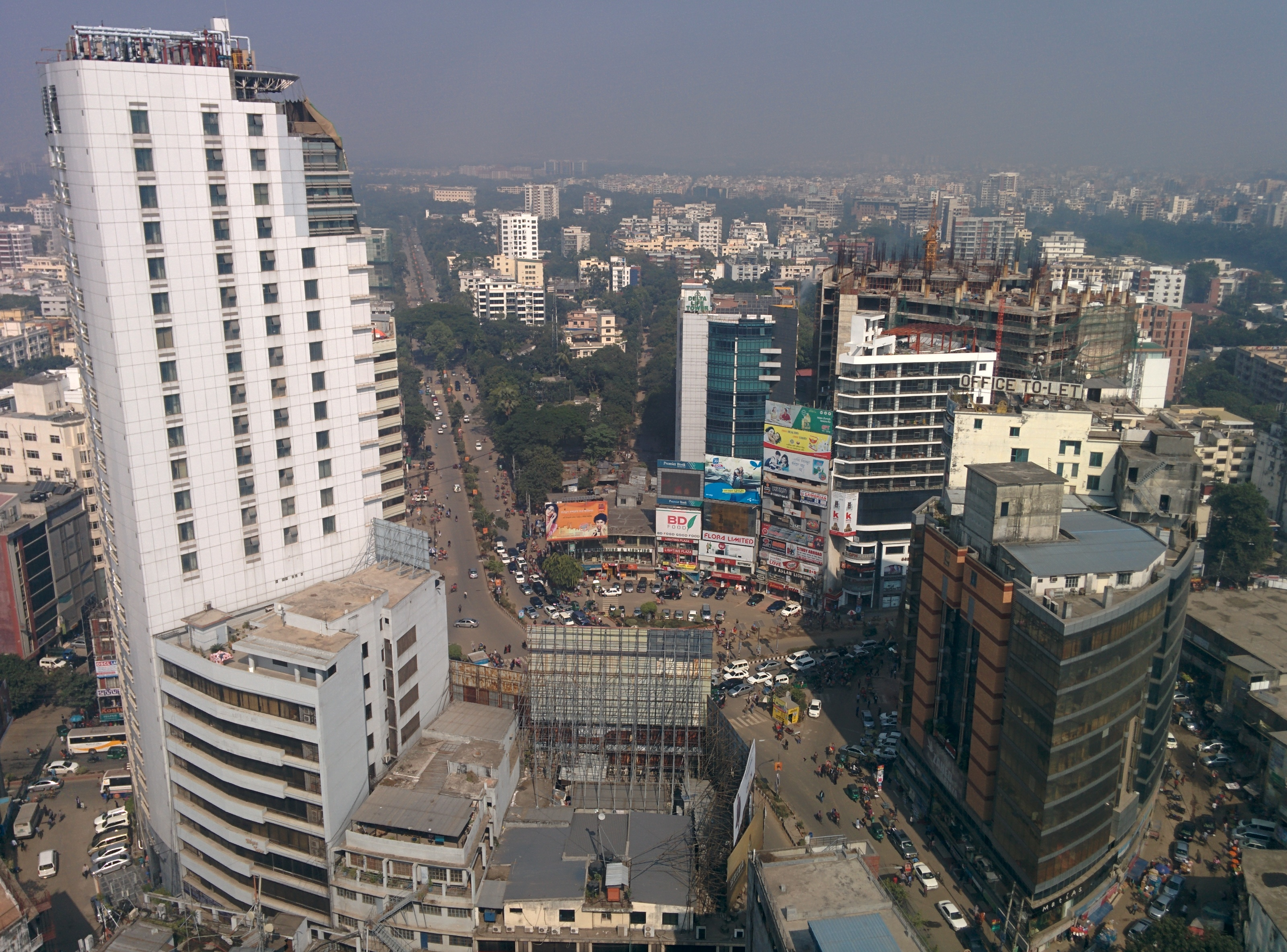 Gulshan 2